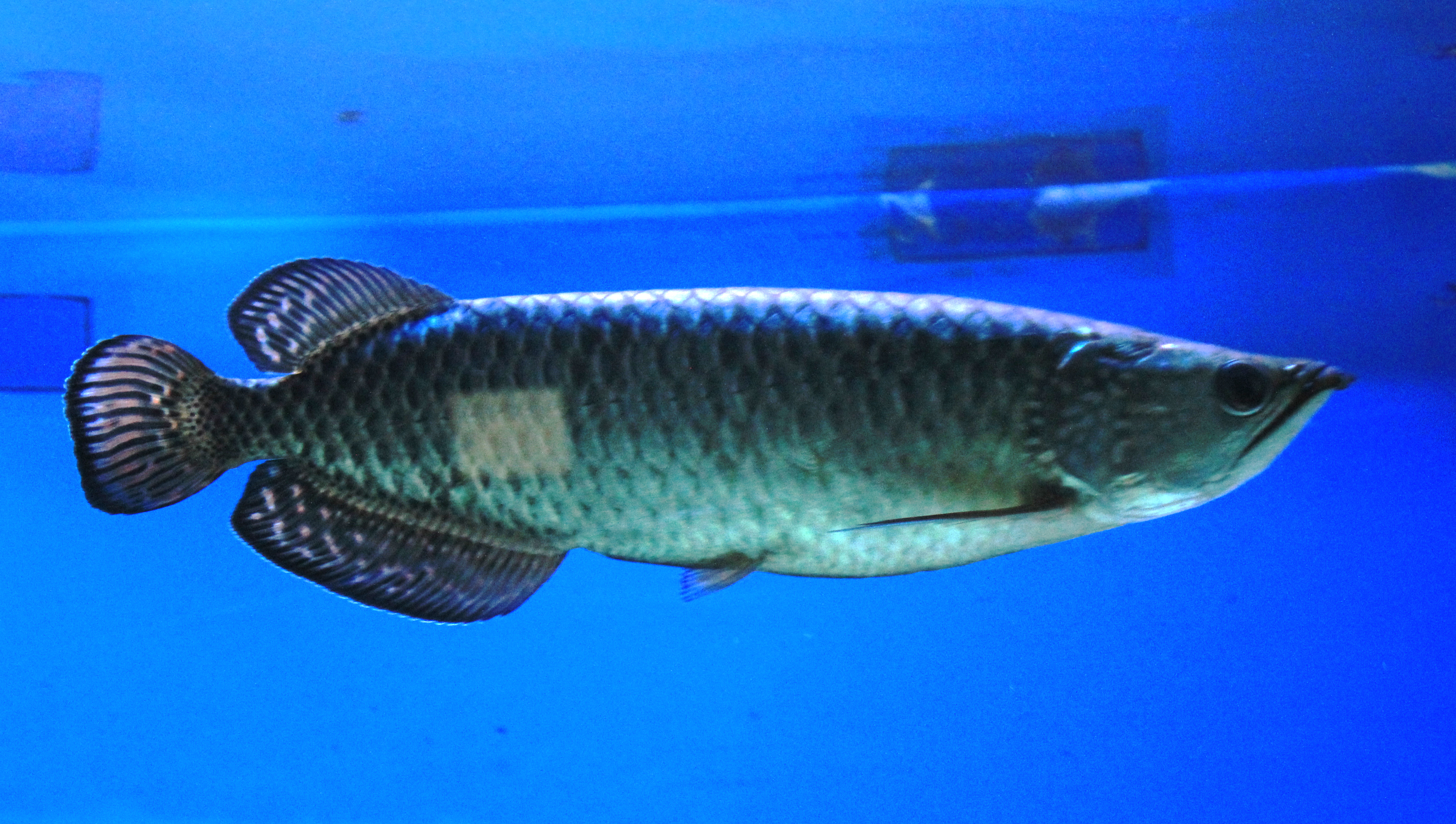 Fish Gulf saratoga Scleropages jardinii in Prague sea aquarium, Czech Republic